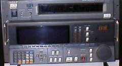 D2 Sony VTR